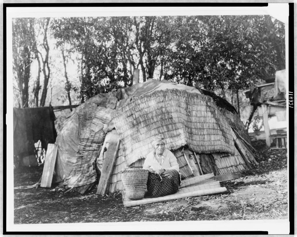 Klamath tule hut